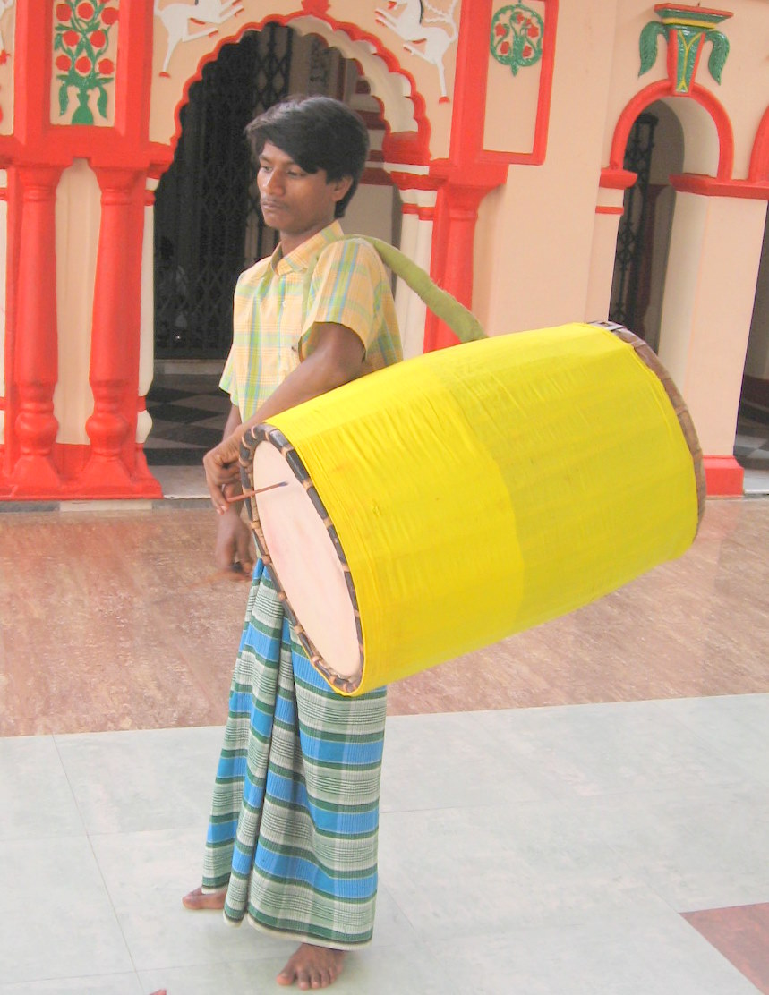 Dhaki at Dhakedwari temple, Dhaka. Dhakis are traditional drummers who play the dhak (drum) during Hindu festivals, primarily in Bengal. Drum beats are an integral part of the five-day long annual festivies associated with Durga Puja